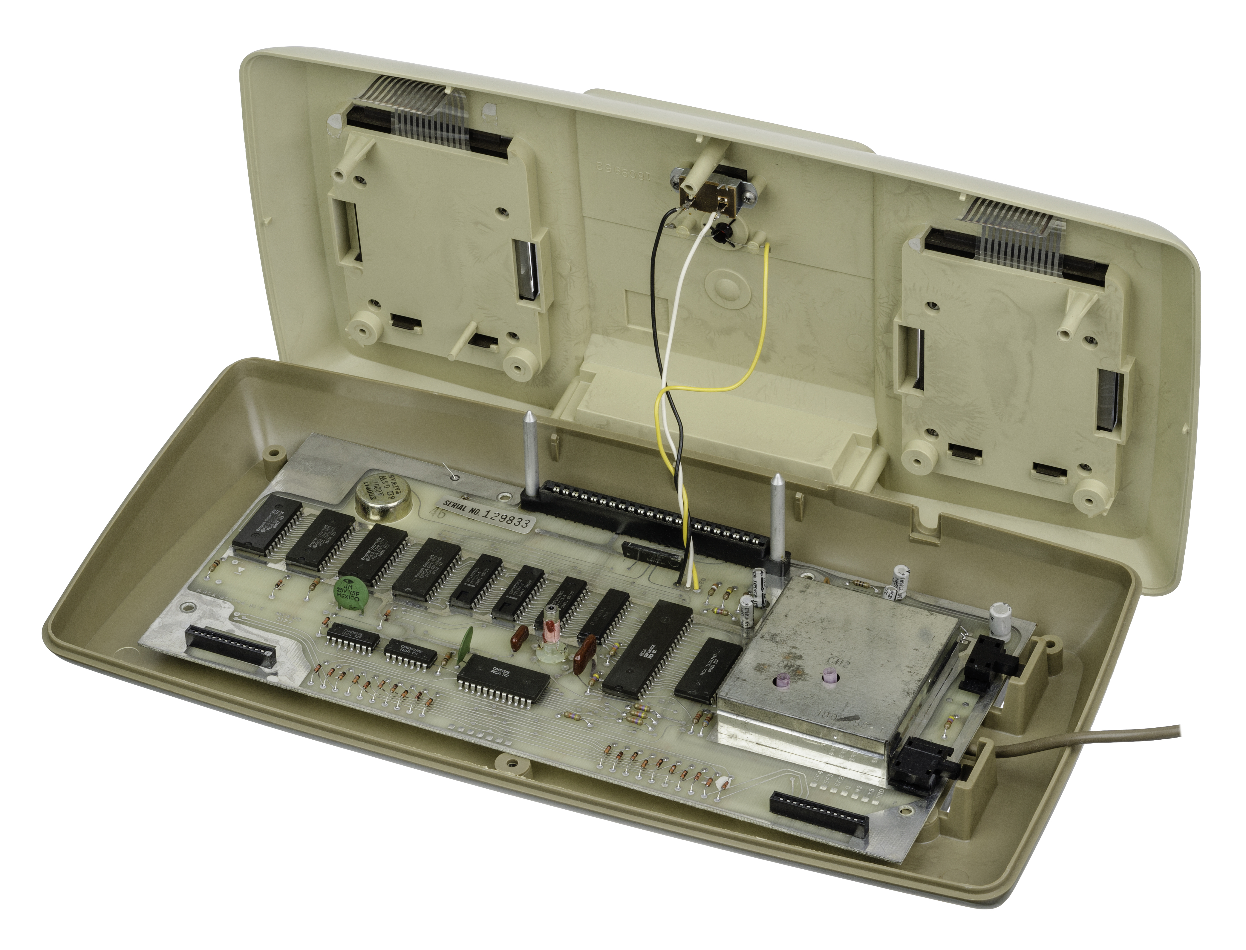 An RCA Studio II video game console, shown opened to reveal its motherboard. The top of the console is hardwired to the motherboard and cannot be separated without resoldering.